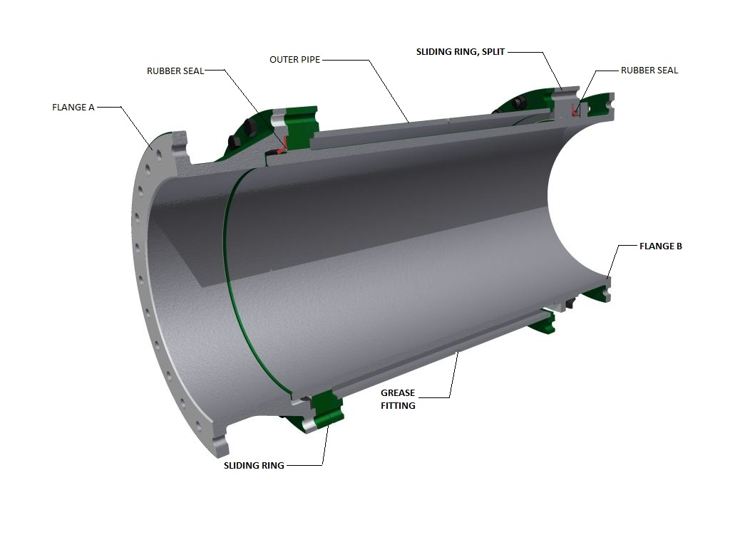 Dredge turning gland designed by using the latest 3D CAD technologies